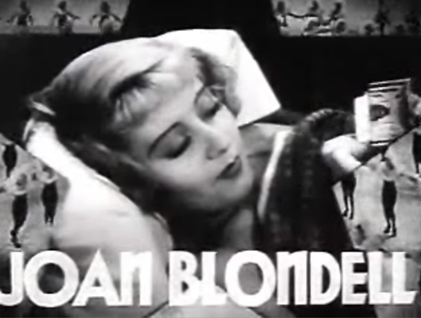 Cropped screenshot of Joan Blondell from the trailer for the film Dames.